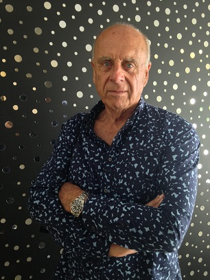 A portrait of Ralph Gibson taken in 2015. Other information Cropped from the original and re-sized.